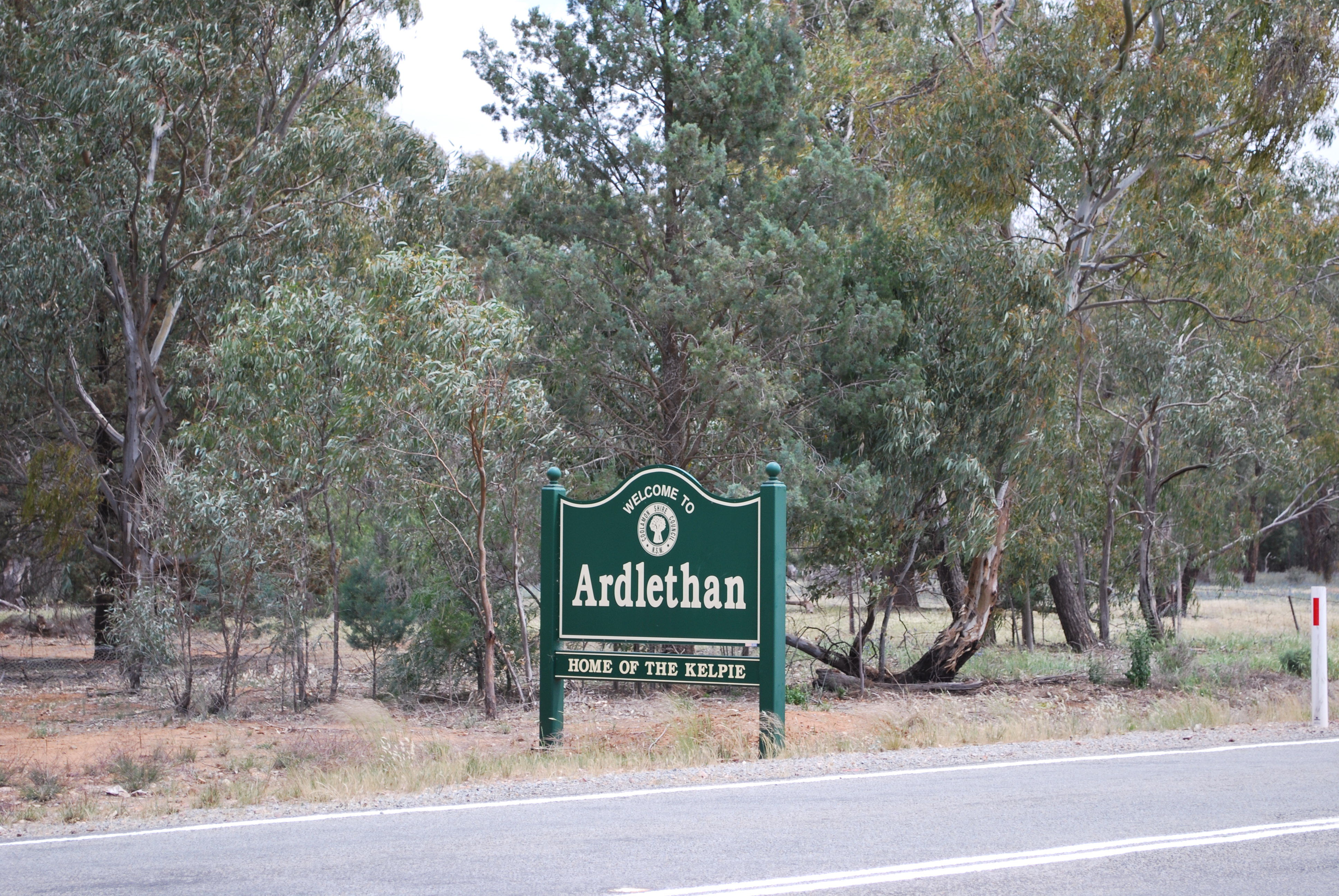 Entry sign at Ardlethan, New South Wales